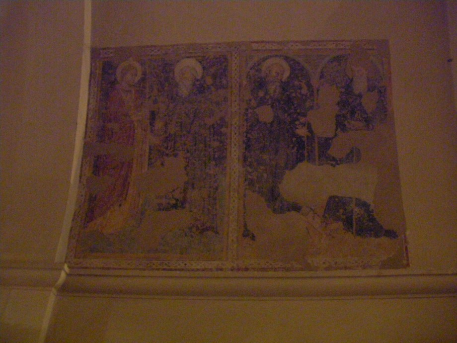 A fresco of the church della Commenda to Faenza that represents four saints that it goes up again at the end of the XIV century.